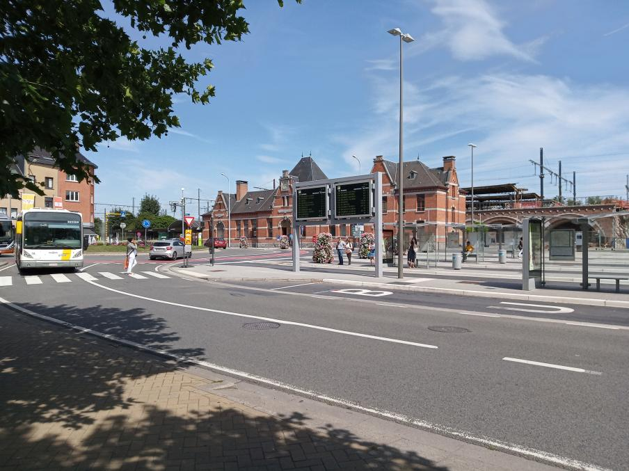 the current station of vilvoord